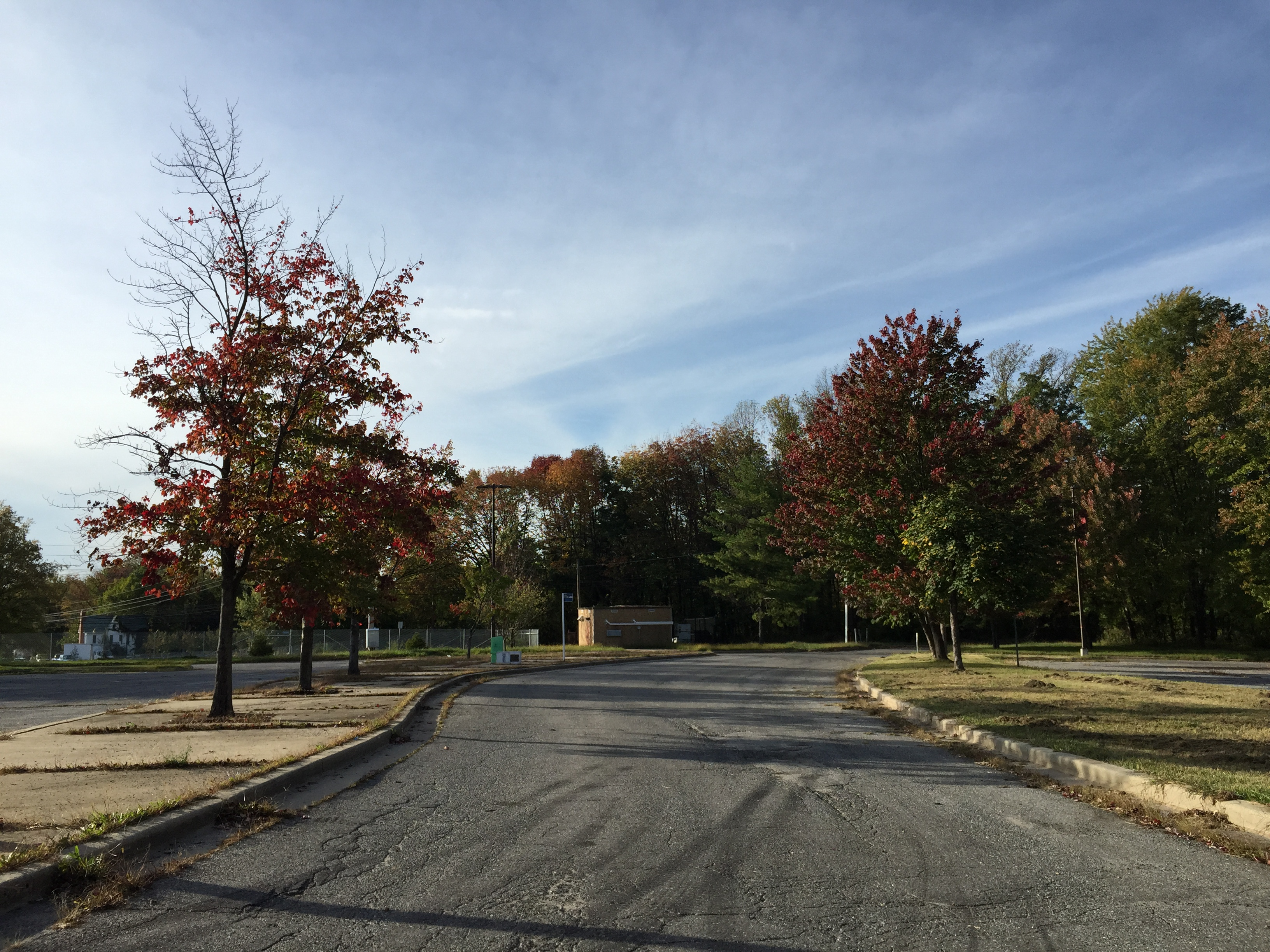 View north along Maryland State Route 928 at Maryland State Route 28 (Norbeck Road) in Olney, Montgomery County, Maryland